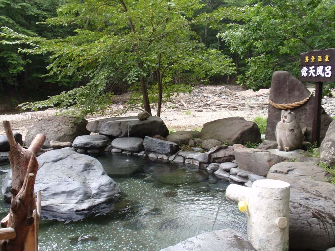 Metou spa Rotenburo